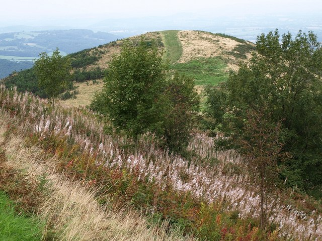 End Hill Seen from the Worcestershire Way Below Table Hill. Rosebay Willowherb in seed is in the foreground.